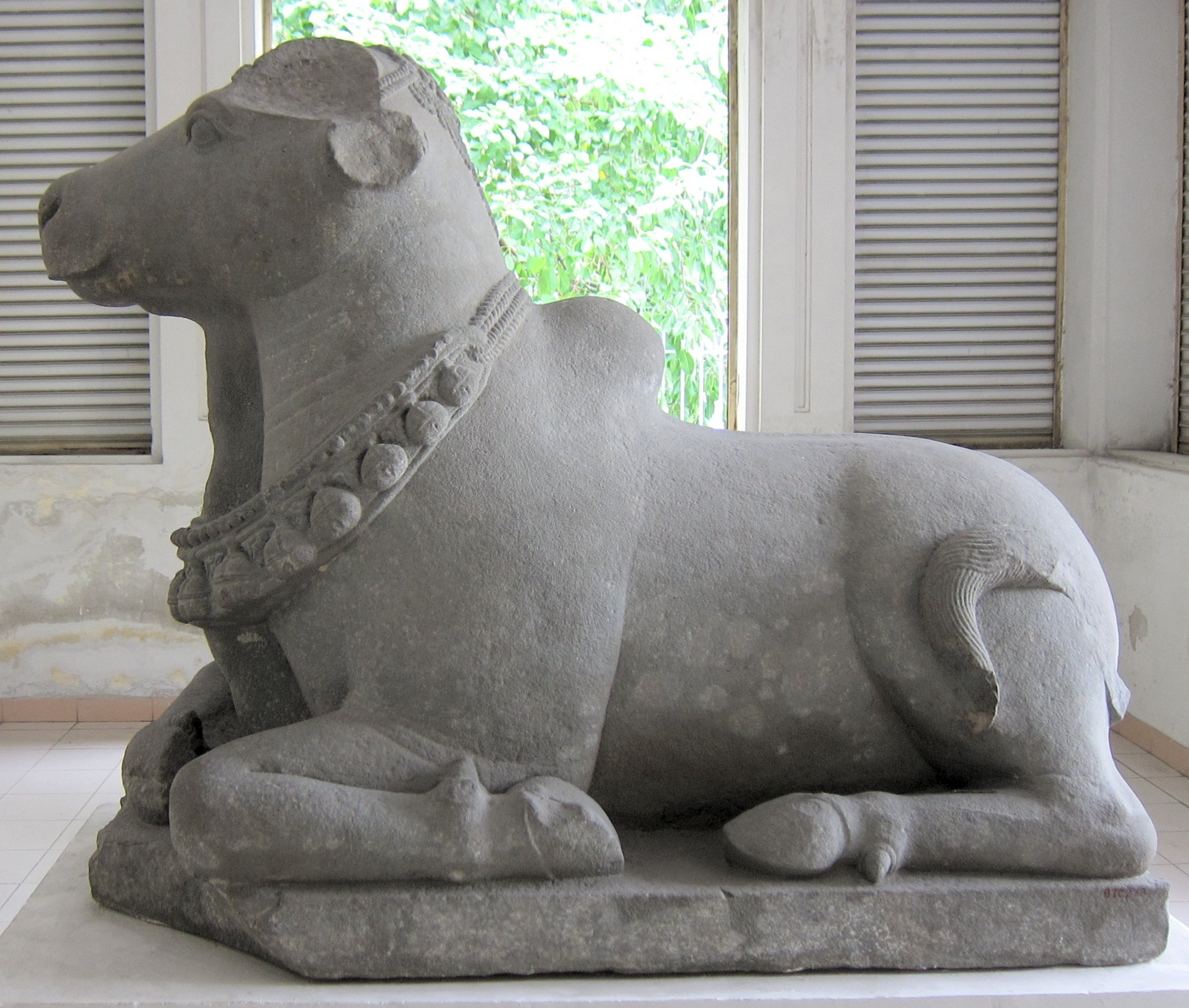 The Holy Bull Nandin (Nandi), 7th-8th century, Museum of Cham Sculpture